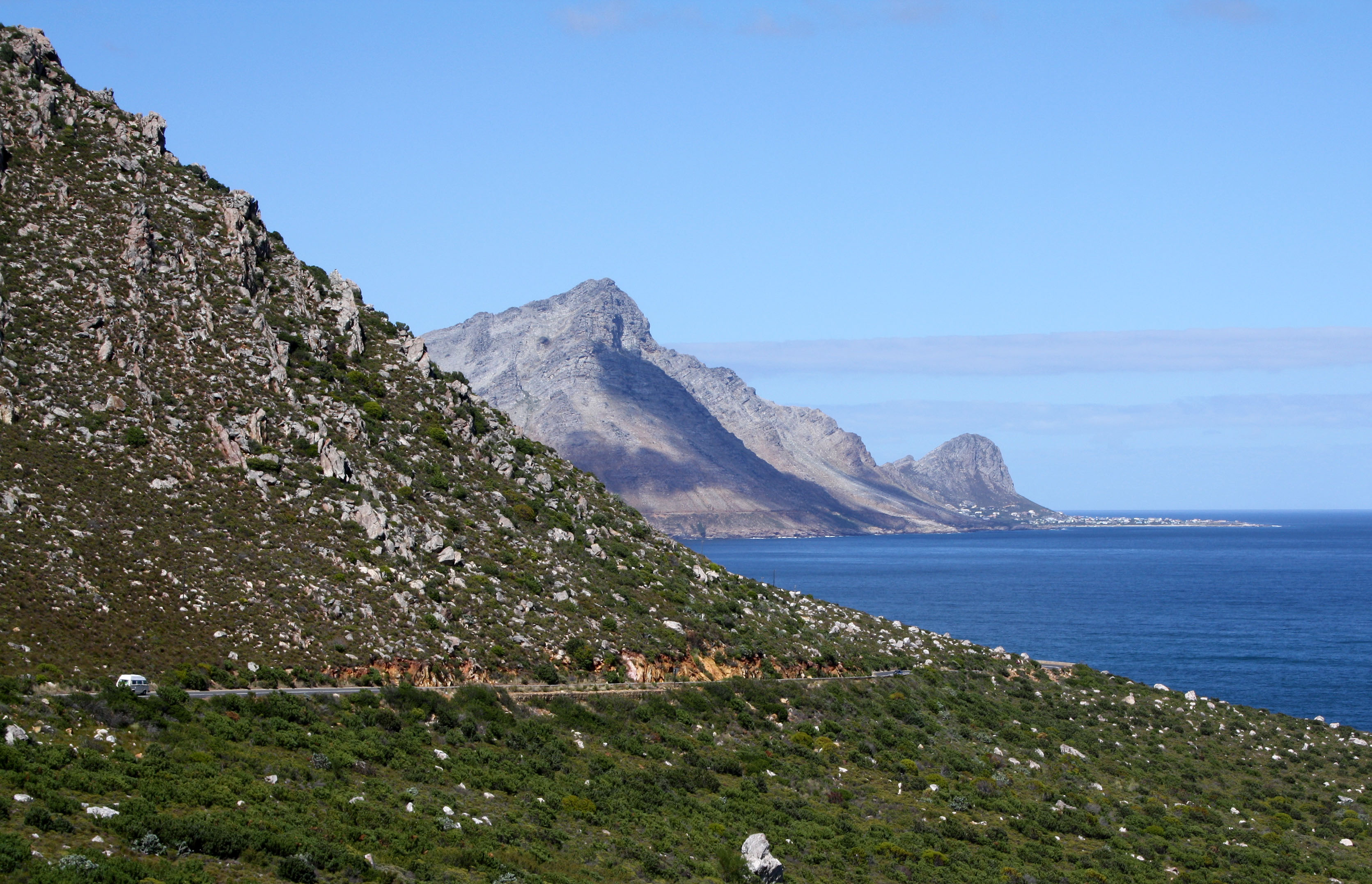 View of the Blousteenberge (middle left) and Klein-Hangklip at Rooi-Els (far right) in the Western Cape, South Africa, as seen from Clarence Drive. April 2012. Photo by Winstonza talk